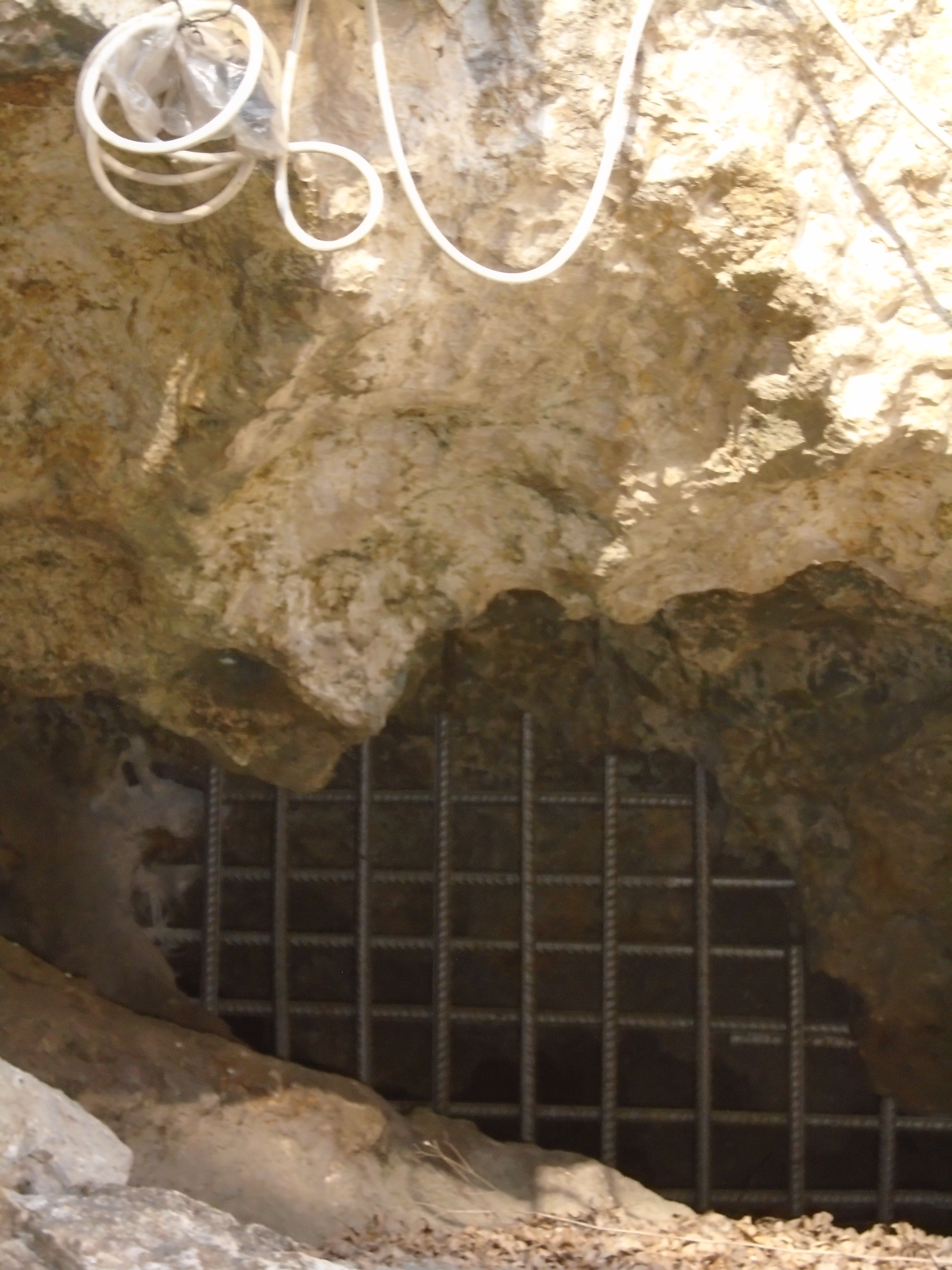 Entrance of Csókavári Cave in Üröm.